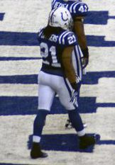 Indianapolis Colts defensive players in 2007.